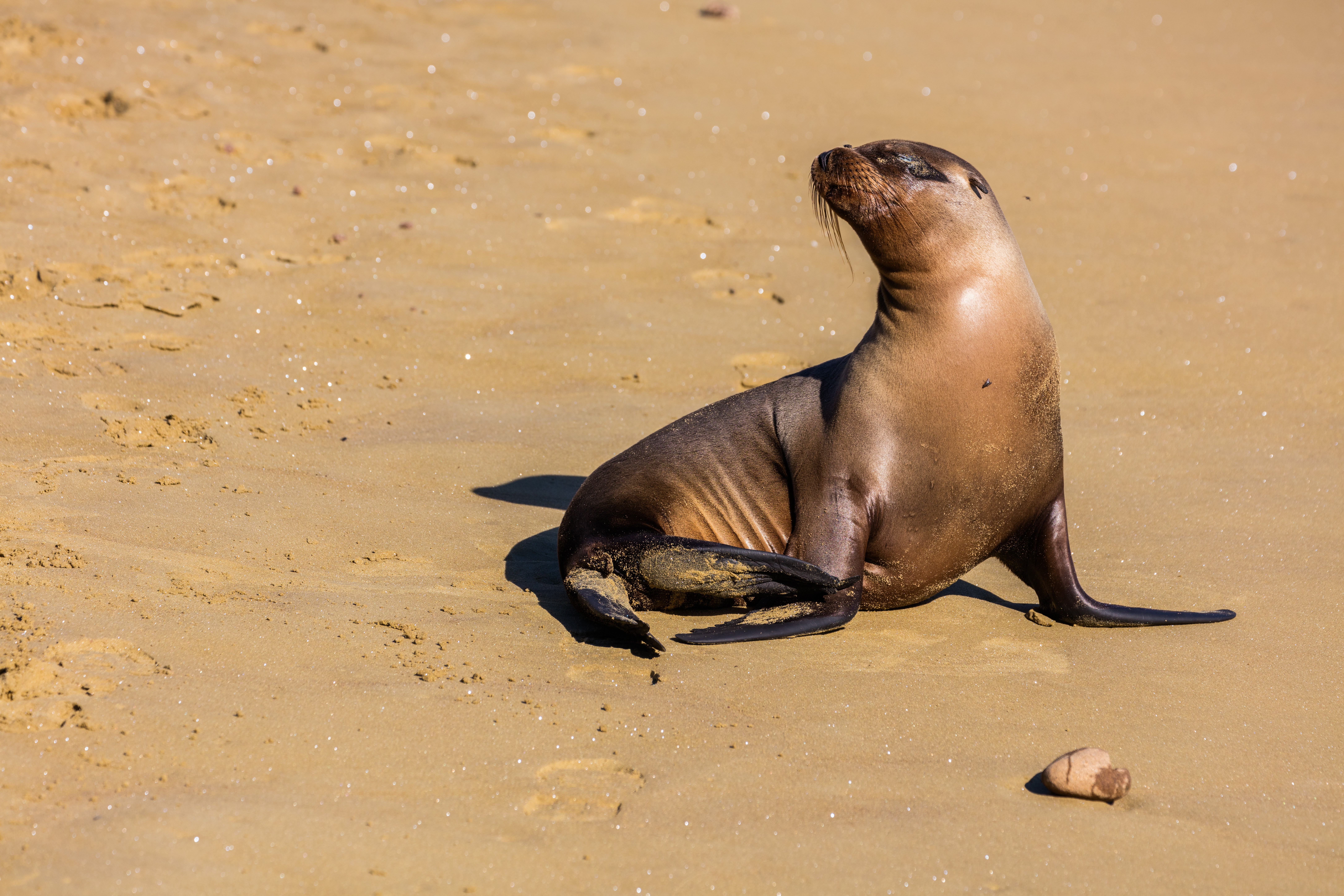 Sea lion (Zalophus californianus wollebaeki), Punta Pitt, San Cristobal island, Galapagos islands, Ecuador